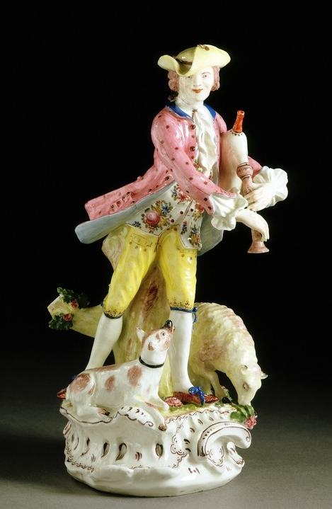 Figure, about 1754, Bow Porcelain Factory V&A Museum no. C.144-1931 Techniques - Soft-paste porcelain, painted in enamels and gilt Place - London, England Dimensions - Height 26.03 cm, Width 14.2 cm (approx.) Object Type - This figure is one from a pair, the other being a shepherdess. Idealised representations of shepherds and shepherdesses, often fashionably dressed, were very popular in Western Europe in the mid-18th century. The Bow factory copied this figure and its shepherdess from a pair made at the Meissen porcelain factory in Germany. They may have been displayed on a chimney-piece or another domestic furnishing. Alternatively, they could have been set out on a dining table, which is probably how the Meissen originals would have been used. Meissen was the first factory to make porcelain figures for the dessert, and set the sculptural conventions followed by porcelain factories elsewhere. Trading - Continental porcelain could not be legally imported for sale in Britain until 1775, unless it was stated to be for personal use, not for resale. Despite this, large quantities of Meissen porcelain were sold in London china shops in the 1750s. Much of this had been imported under the pretence that it was for personal use, but some was smuggled in. The British greatly admired Meissen porcelain, and the English porcelain factories made many figures copied from Meissen originals.